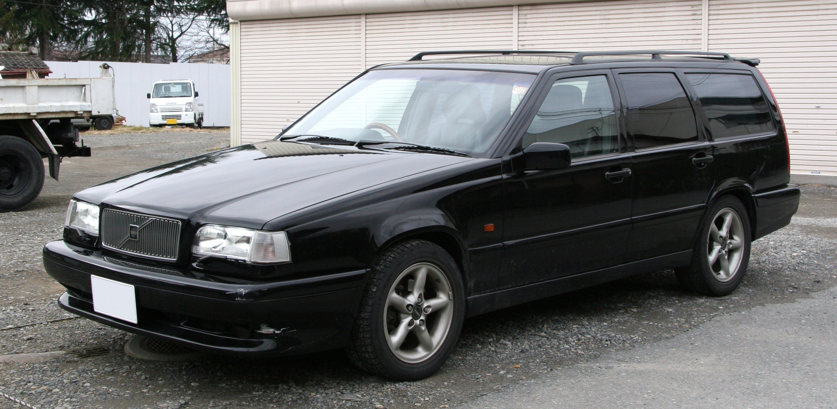 Volvo 850